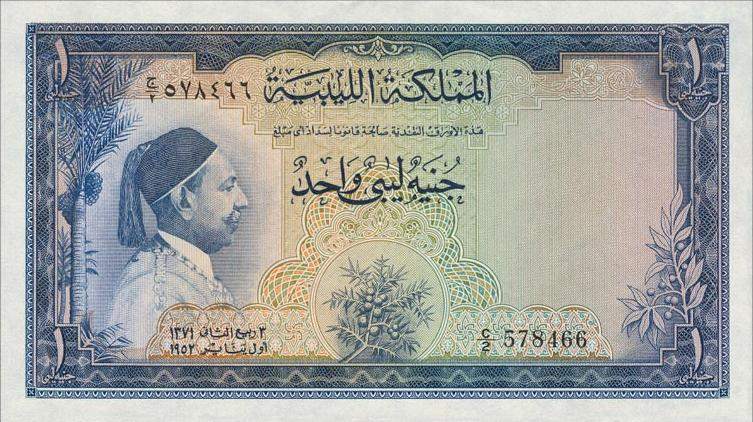 1 pound